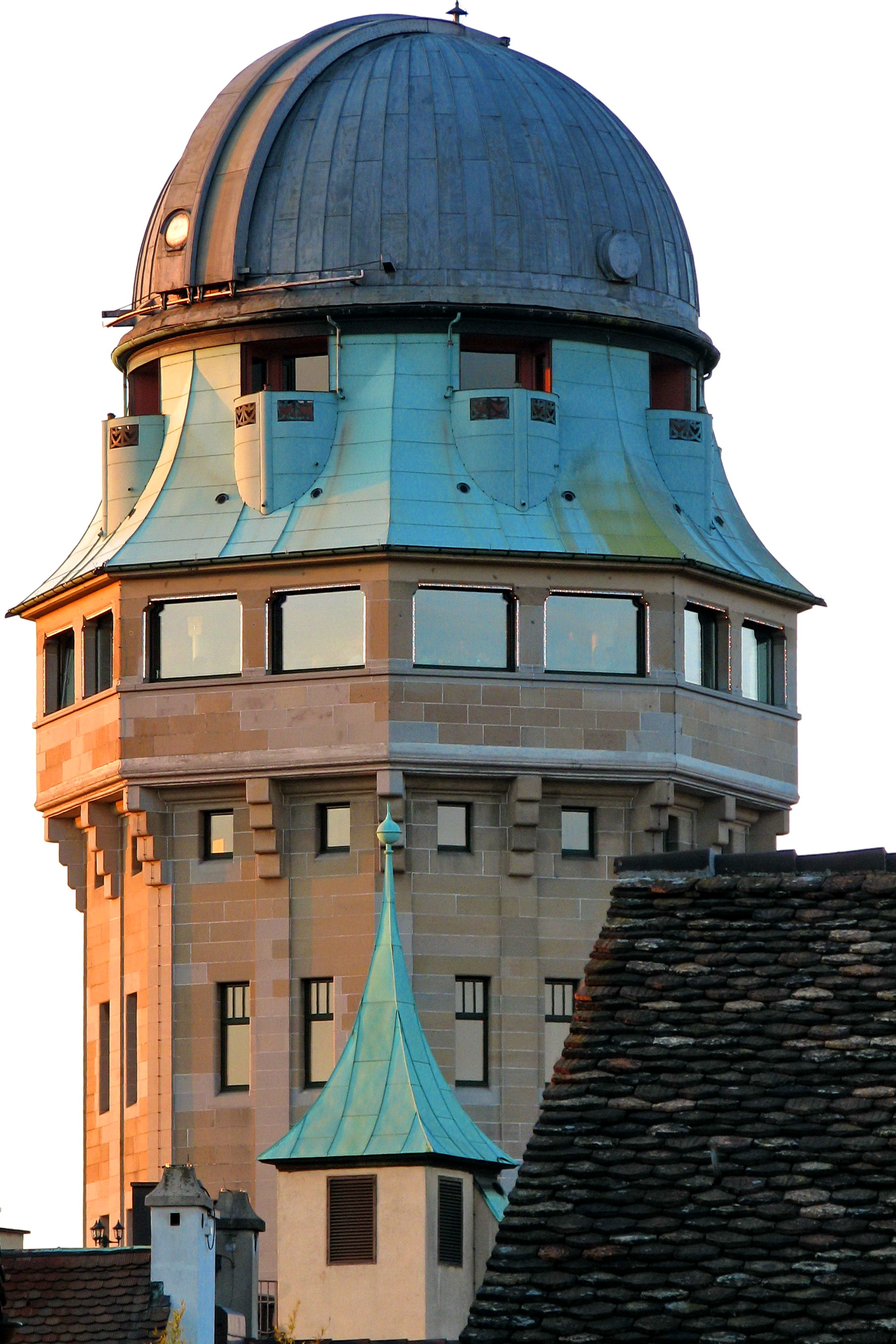 Zürich (Switzerland) : Urania observatory's telescope dome as seen from Lindenhof hill.